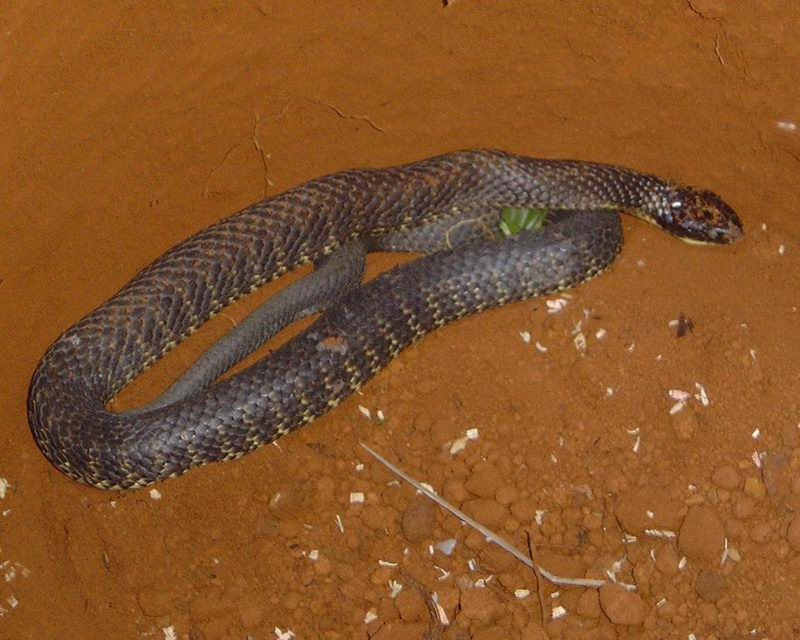 Tiger snake (Notechis sp.) Taken by JAW 6th April 2005 Pemberton, Western Australia